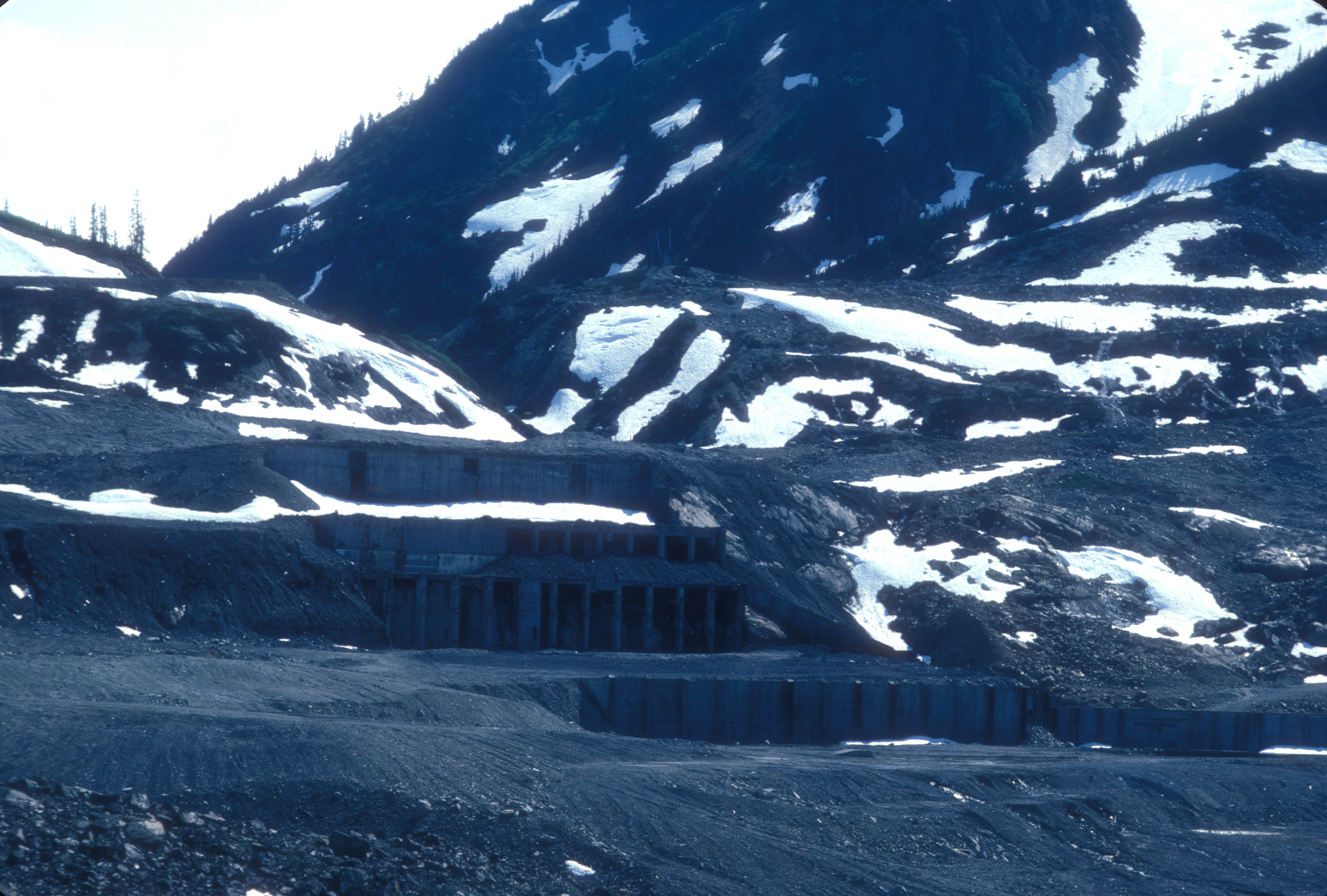 REMAINS OF THE FAMOUS GRAND DUC COPPER MINE WHICH JUST CLOSED A FEW YEARS AGO LEAVING MILLIONS OF DOLLARS OF EQUIPMENT BURIED IN THE MOUNTAINS. A SMALL TOWN HAD BEEN BUILT, AN AIRFIELD, MOVE HOUSE, A BOWLING ALLEY - ALL LEVELED